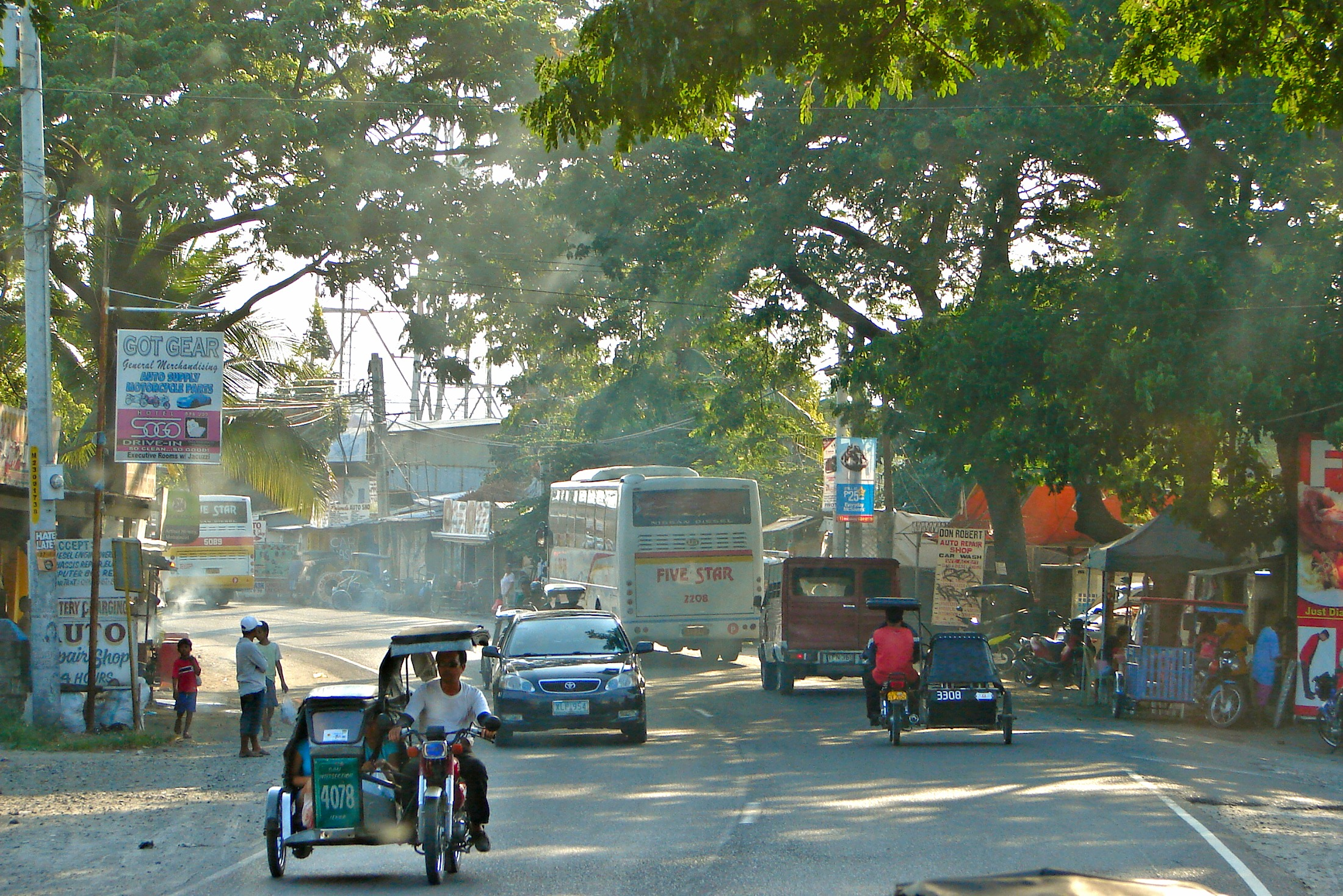 Mabalacat, Pampanga, Philippines